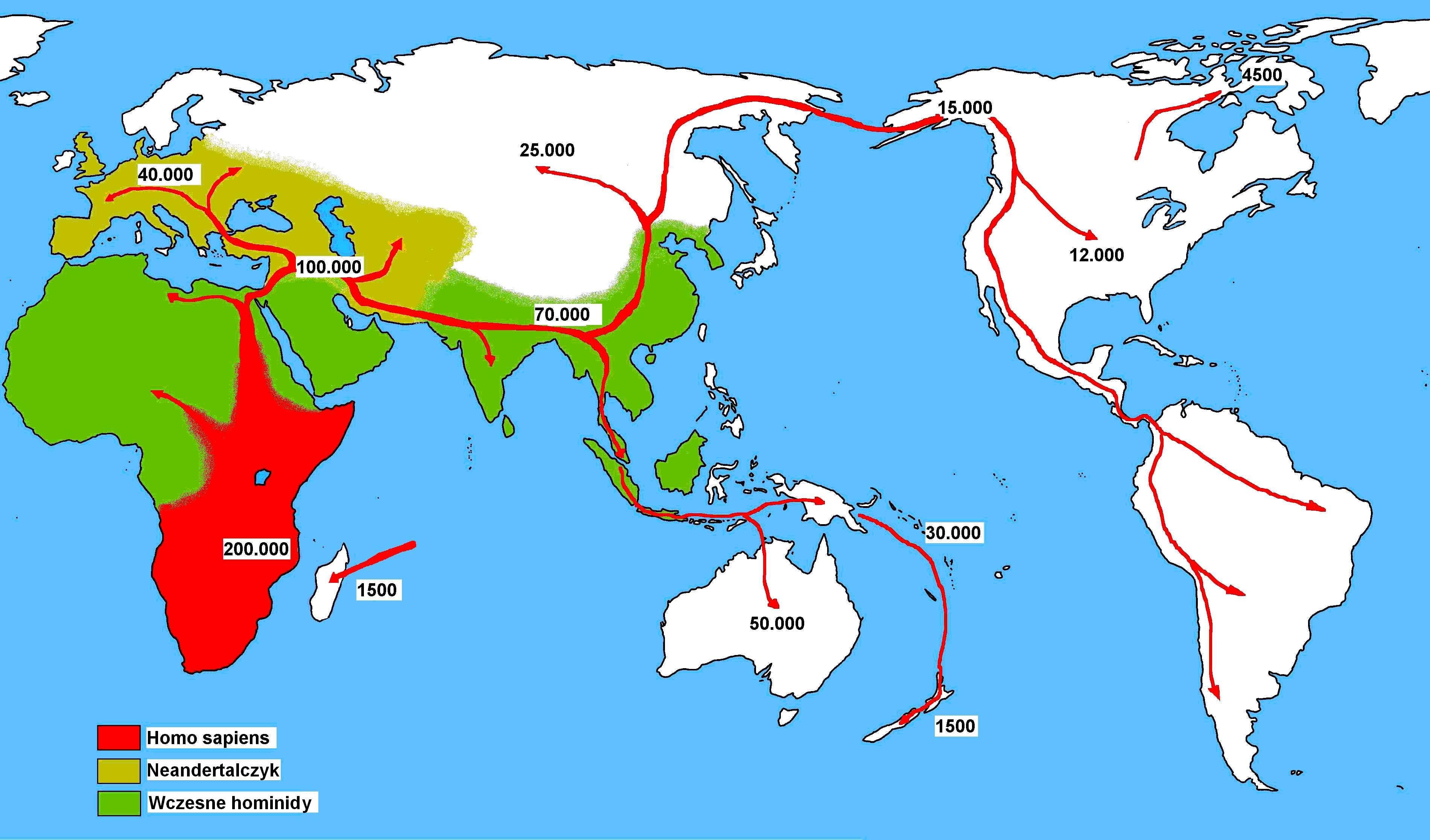 Homo sapiens distribution way